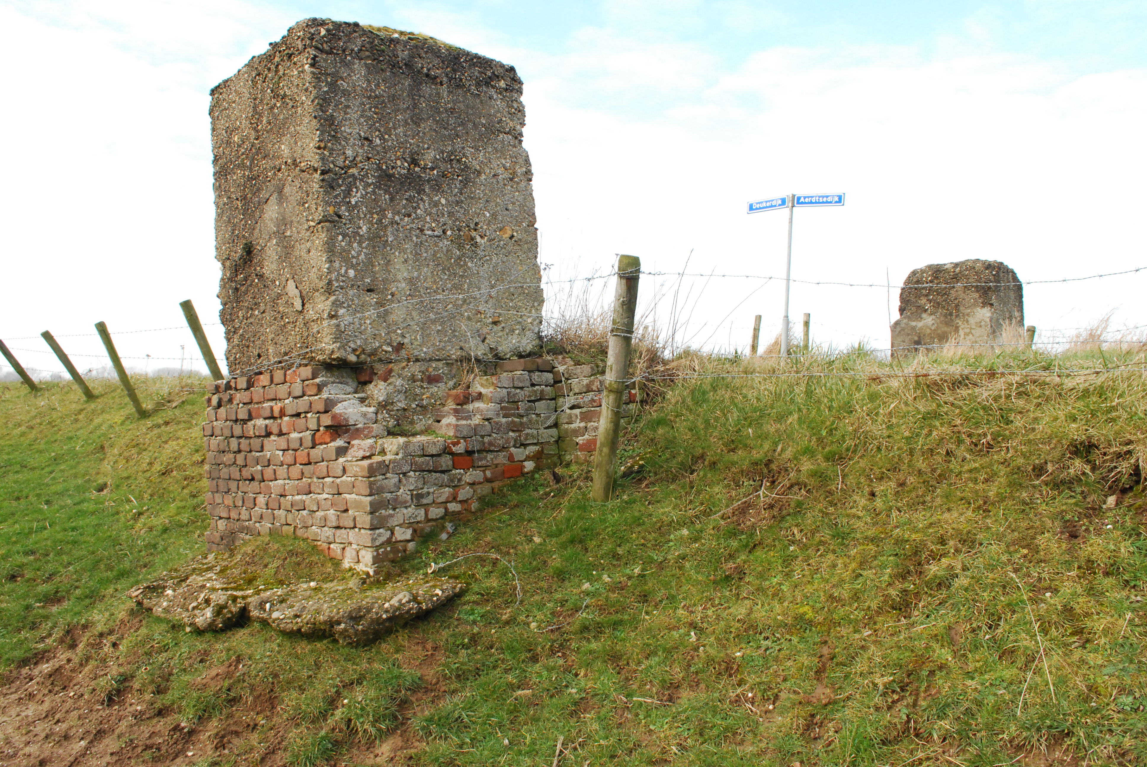 Pillars of a road barricade of the Pantherstellung at the village of Aerdt